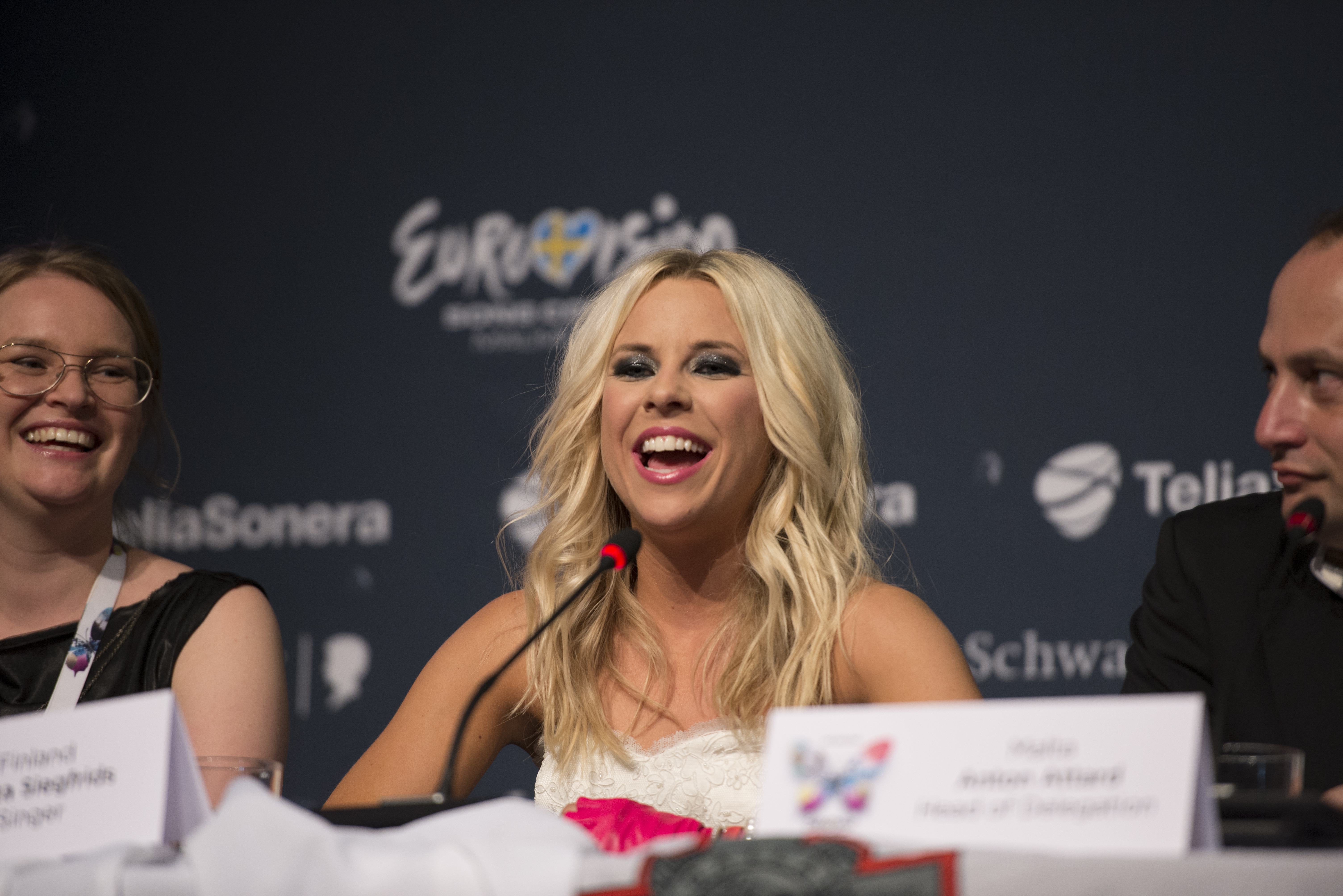 Krista Siegfrids at a press conference during the Eurovision Song Contest 2013 in Malmö. (Help translate this text)